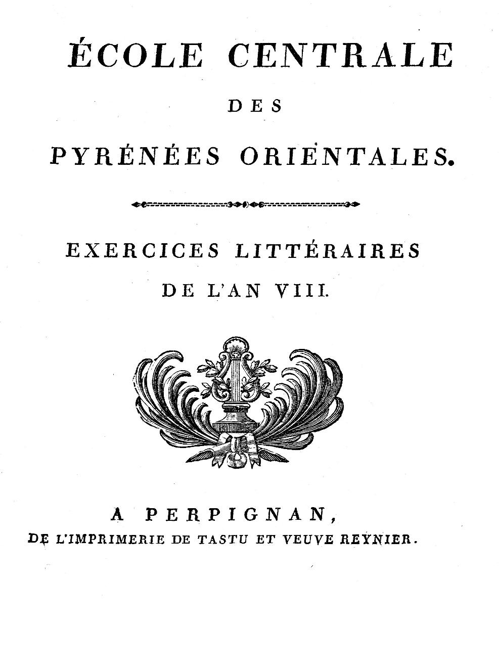 Book cover of École centrale des Pyrénées Orientales. Exercices littéraires de l'an VIII (Perpignan: Imp. Tastu & Veuve Reynier, 1800)